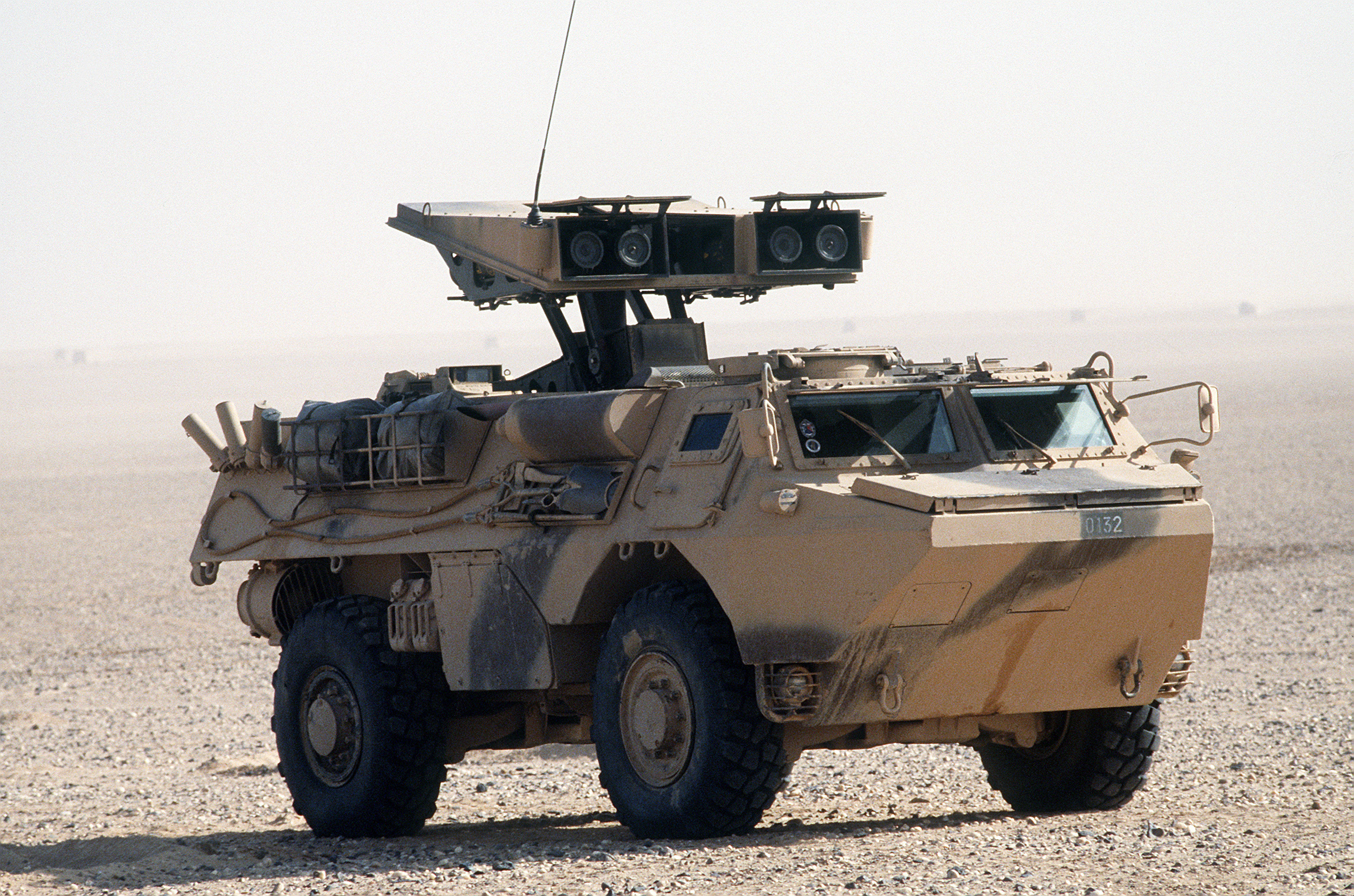 A French Renault VAB 4x4 armored personnel carrier with Euromissile Mephisto system takes part in a display of Allied armor during Operation Desert Shield.